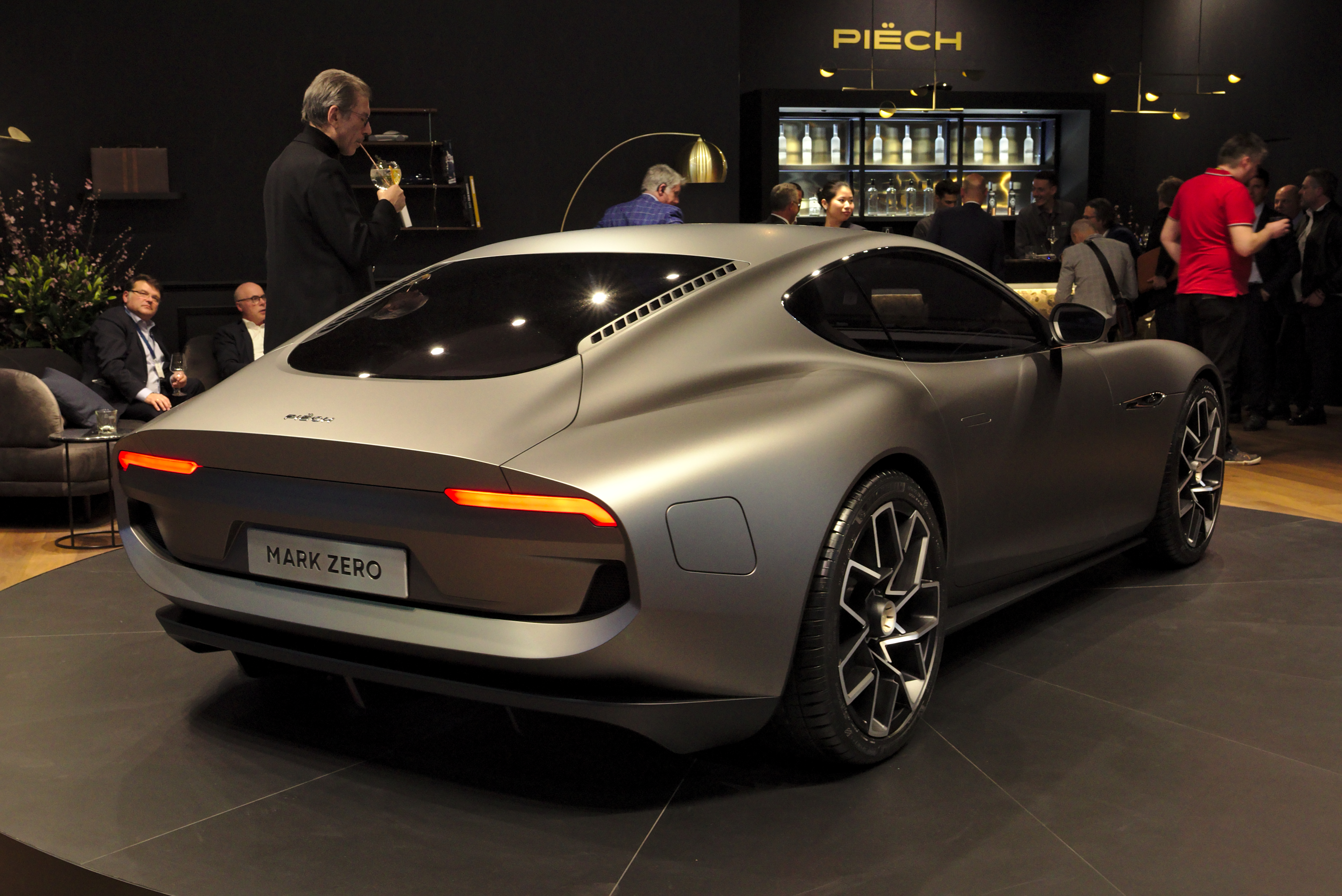 Piëch Mark Zero at Geneva Motor Show 2019